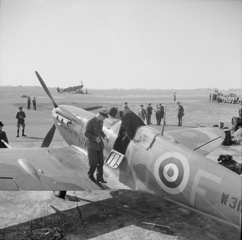 Royal Air Force 1939-1945- Fighter Command The Prime Minister of New Zealand, the Rt Hon Peter Frazer, climbs from the cockpit of a No 92 Squadron Spitfire VB at Biggin Hill on the evening of 11 July 1941, during his whistle-stop tour of South Eastern Command.